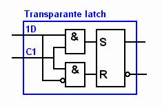 A transparent (D) latch (flip-flop) consisting of a latch and 2 gates.